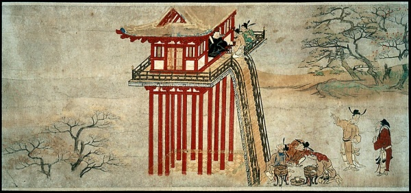 Kibi daijin nitto emaki, Japanese emaki, XIIe, Museum of Fine Art, Boston